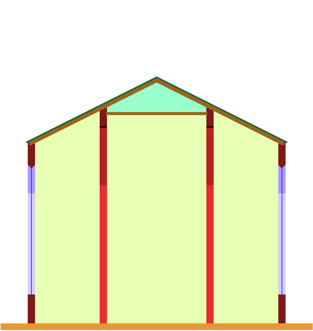 Scheme of a hall church with a horizontal ceiling of the central nave and sloping ceilings of the lateral aisles